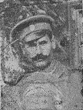 Portrait of Velko Mandalchev from Macedonian-Adrianopolitan Volunteer Corps